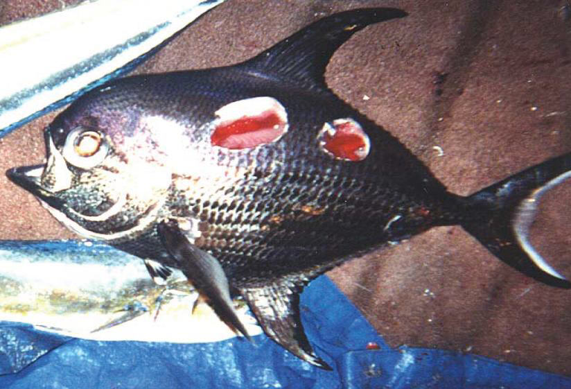 Pomfret with damage from a cookiecutter shark (Isistius brasiliensis)